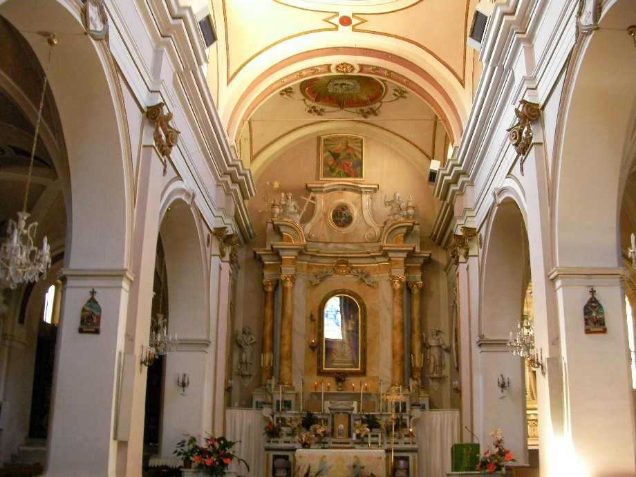 The inside of the church of Madonna di Loreto in Torino di Sangro